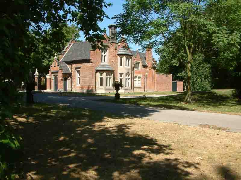 View from Derby Arboretum looking north to the Grove Street (Main) Entrance. Restored 2005 Photo taken By local semi professional photographer Chris Harris, as part of a 5 year photographic project to record the restoration of this public park.